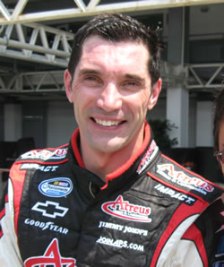 Max Papis posing with a fan at the 2008 NASCAR Nationwide Series event at Mexico City